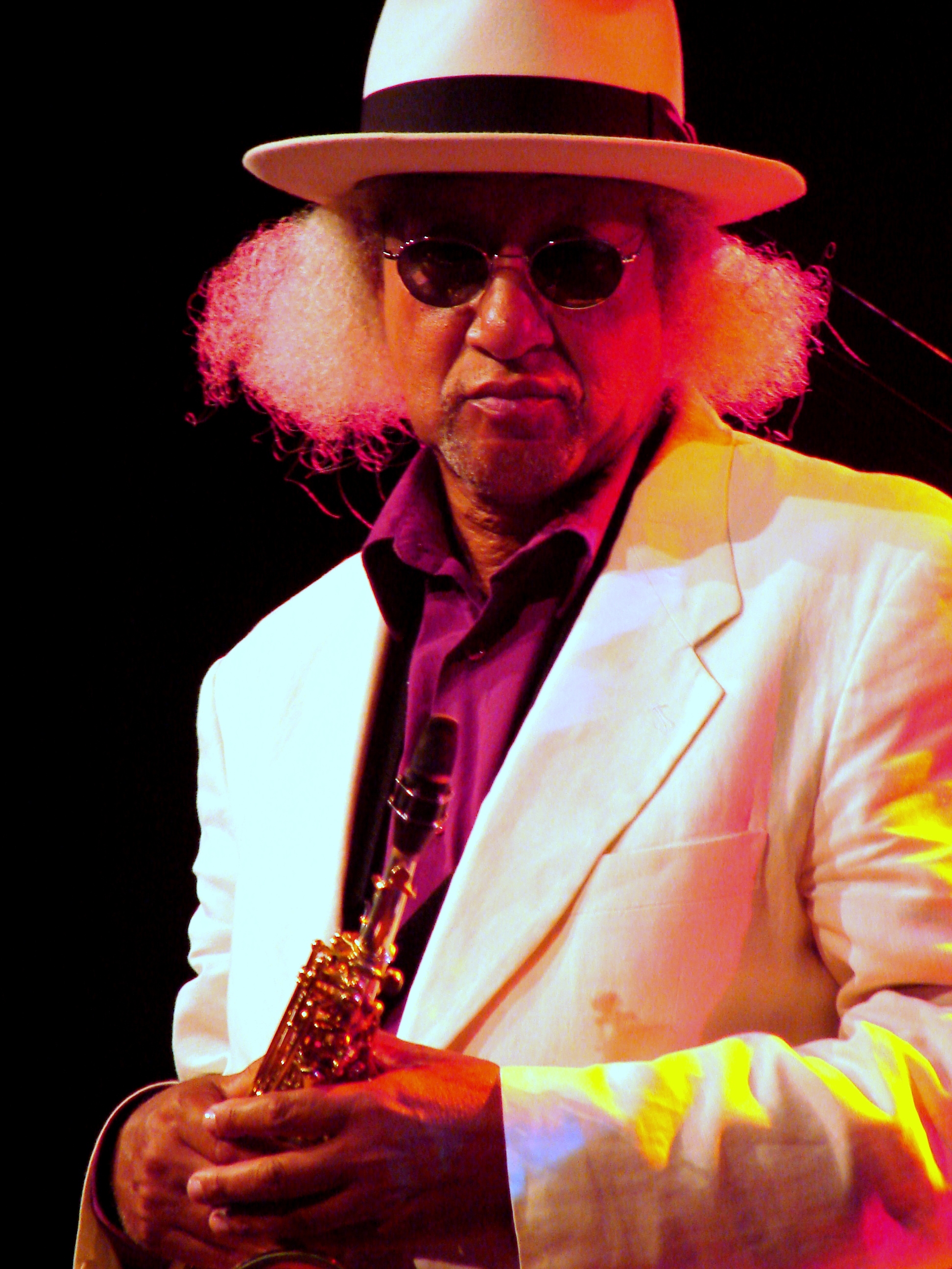 Gary Bartz with McCoy Tyner, at the North Sea Jazz Festival, Rotterdam, 2007.